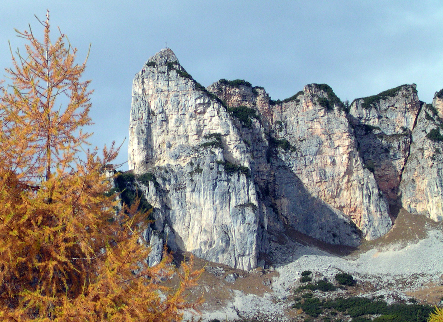 Rotspitze (2067m) and Dalfazer Wände from East